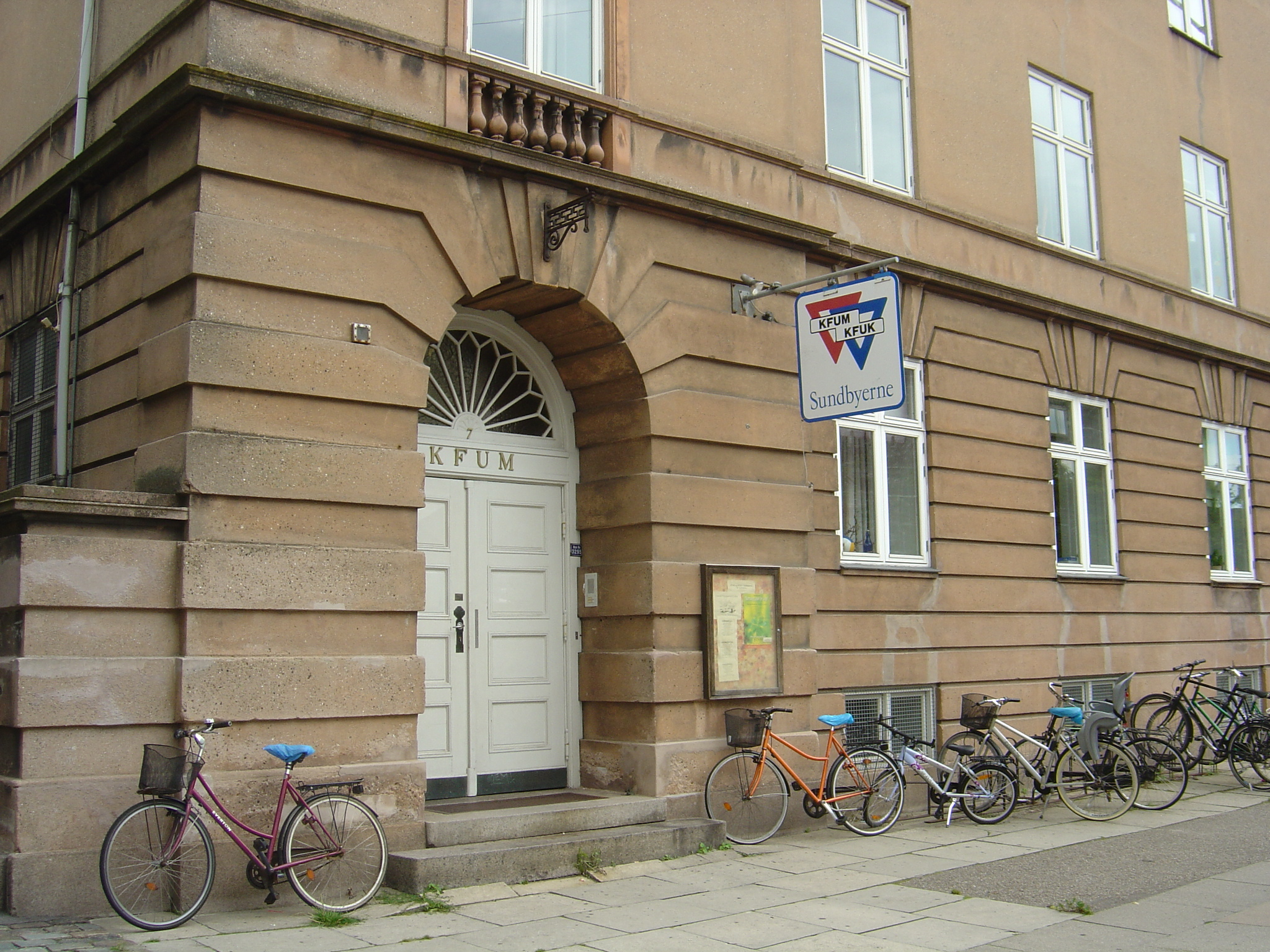 Sundby KFUM Fodbold - their club rooms in the basement on Oliebladsvej 7 on Amager, Copenhagen. Seen from the south side, next to Sundby Kirke.